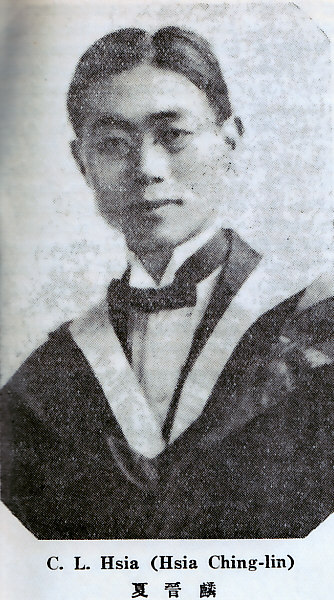 Xia Jinlin (C. L. Hsia; Hsia Chin-lin) (born 1896)